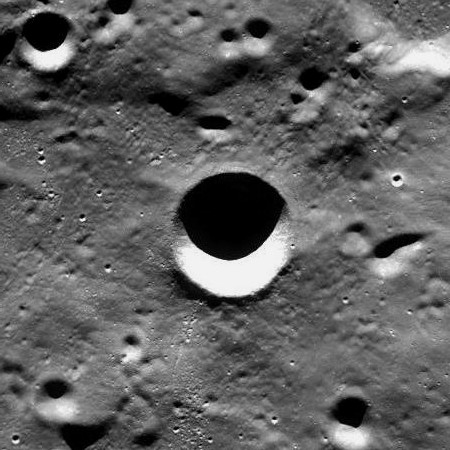 Laveran lunar crater - LRO WAC image